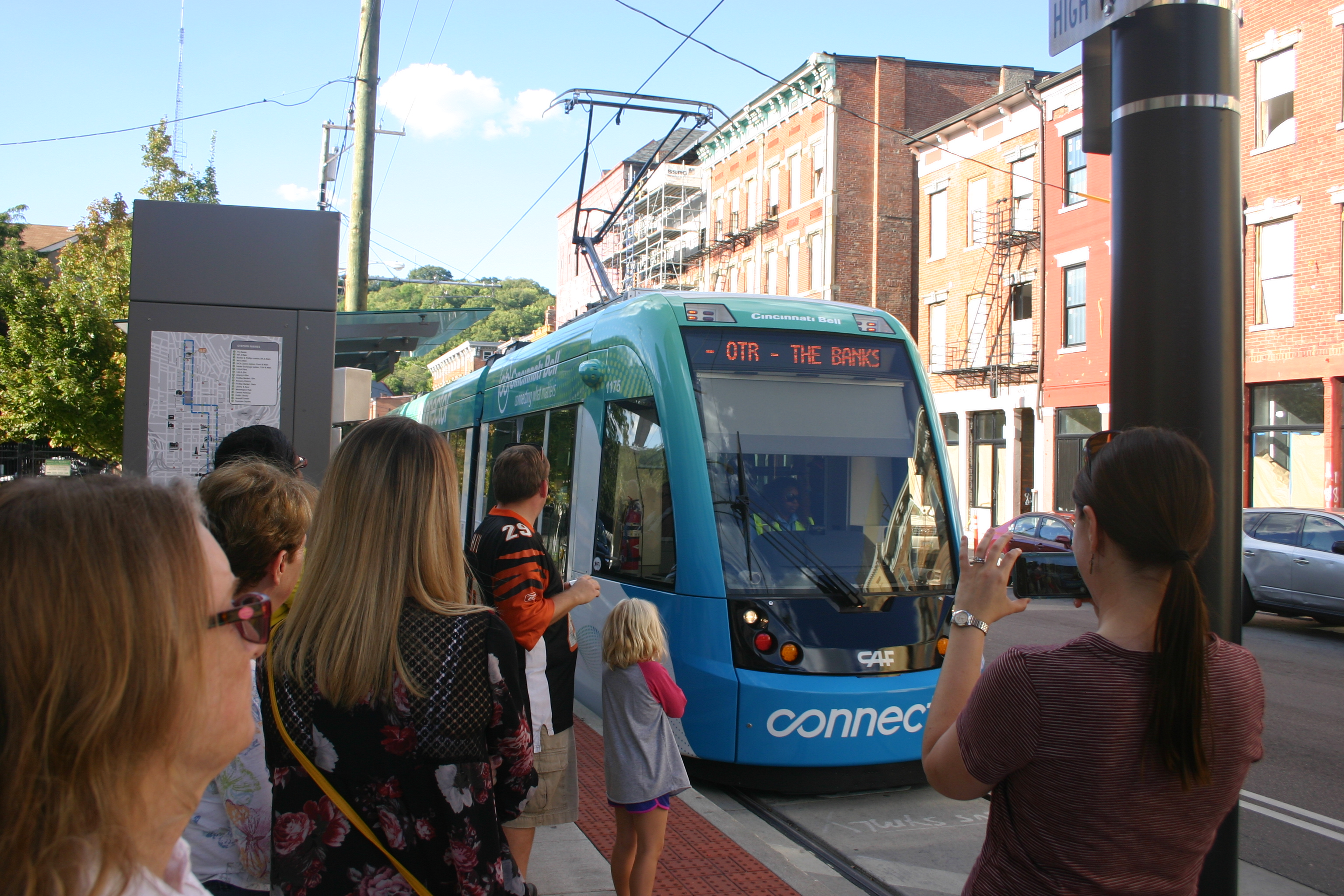 Riders prepare to board the Cincinnati Bell Connector streetcar at Station 12 - Findlay Market - Race during its first weekend of public operation on September 11, 2016.